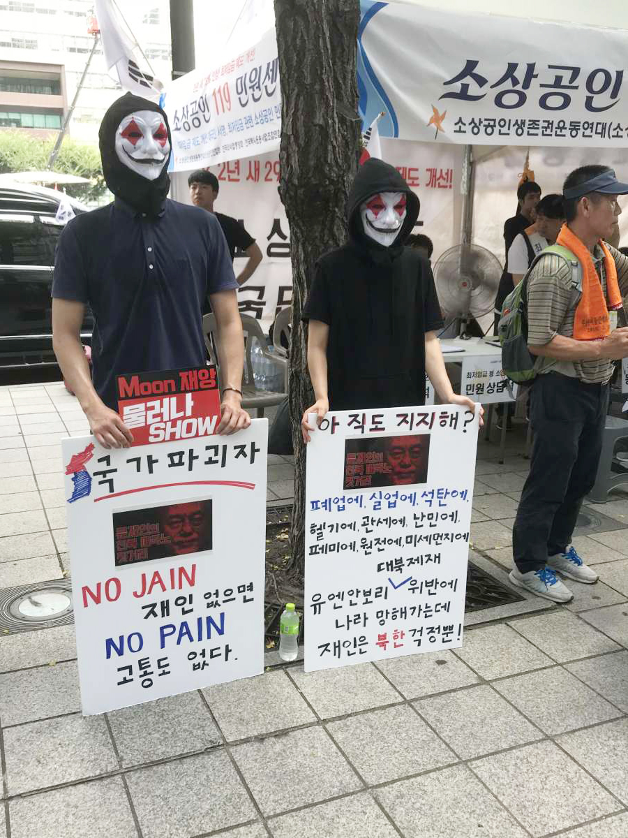 South Korea's small business owners protesting against Moon Jae-in at Gwanghwamun Plaza on August 15, 2018